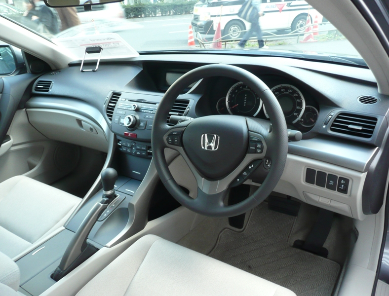 Honda Accord interior.